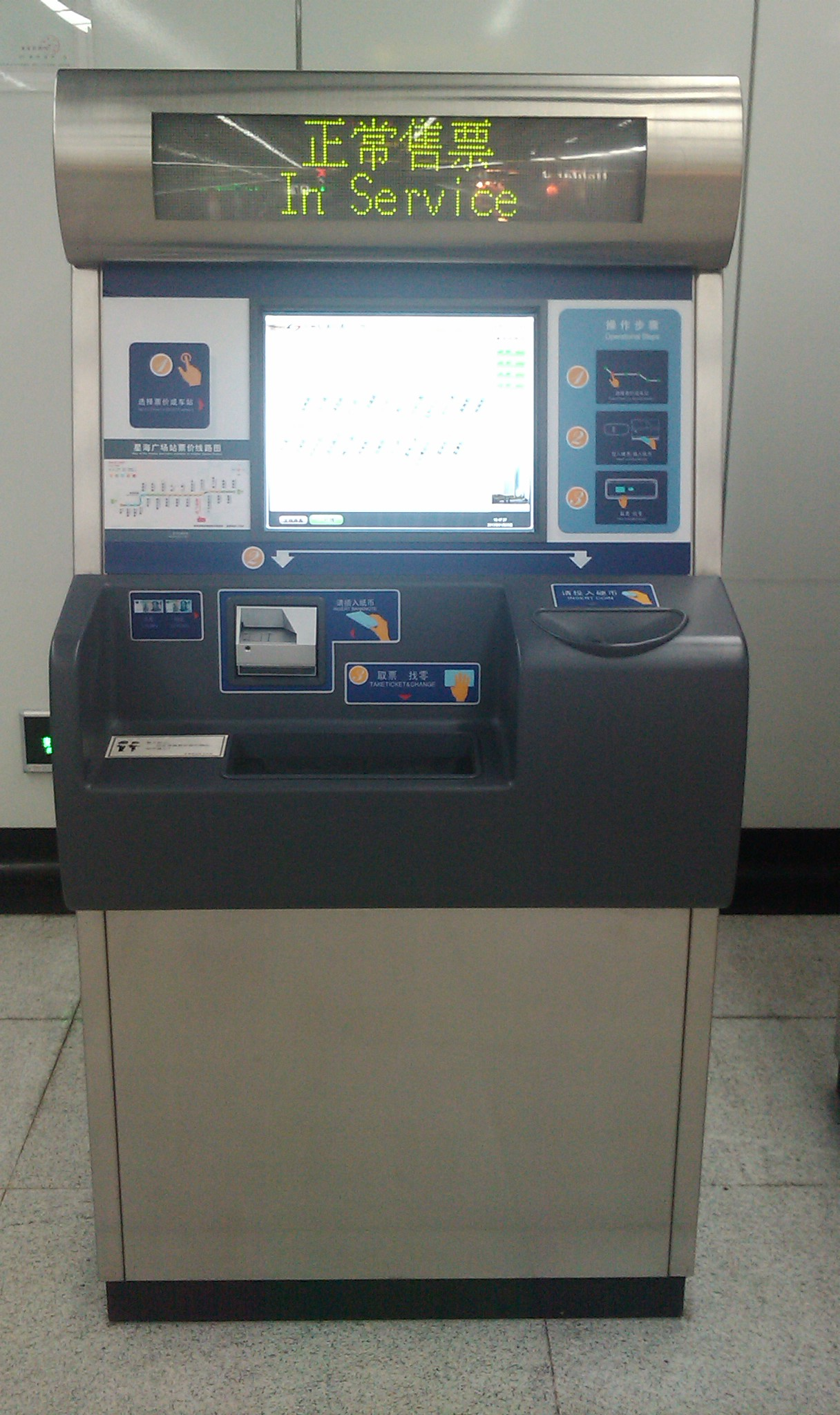 Suzhou Rail Transit ticket vending machine